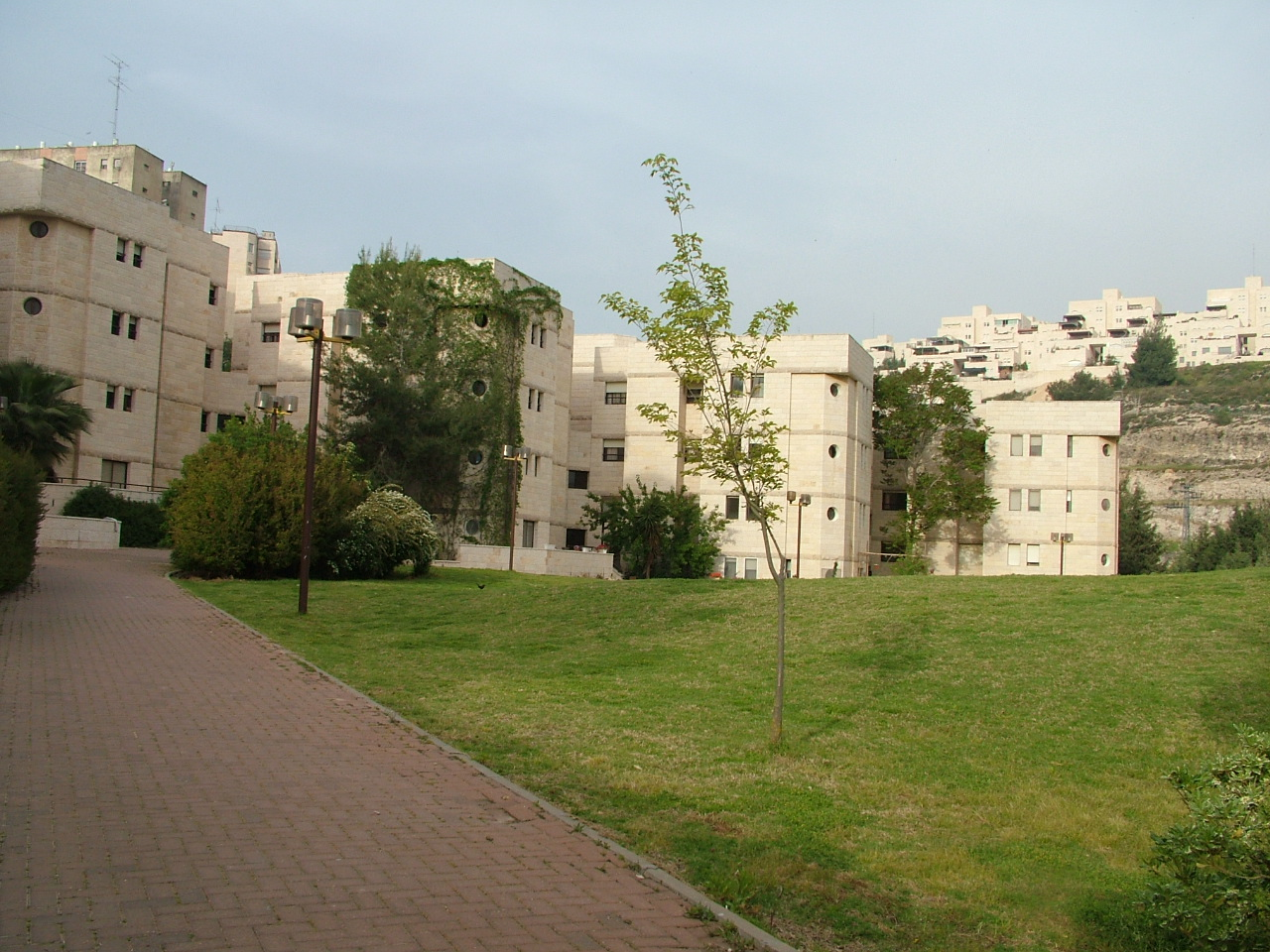 The dormitory of IASA